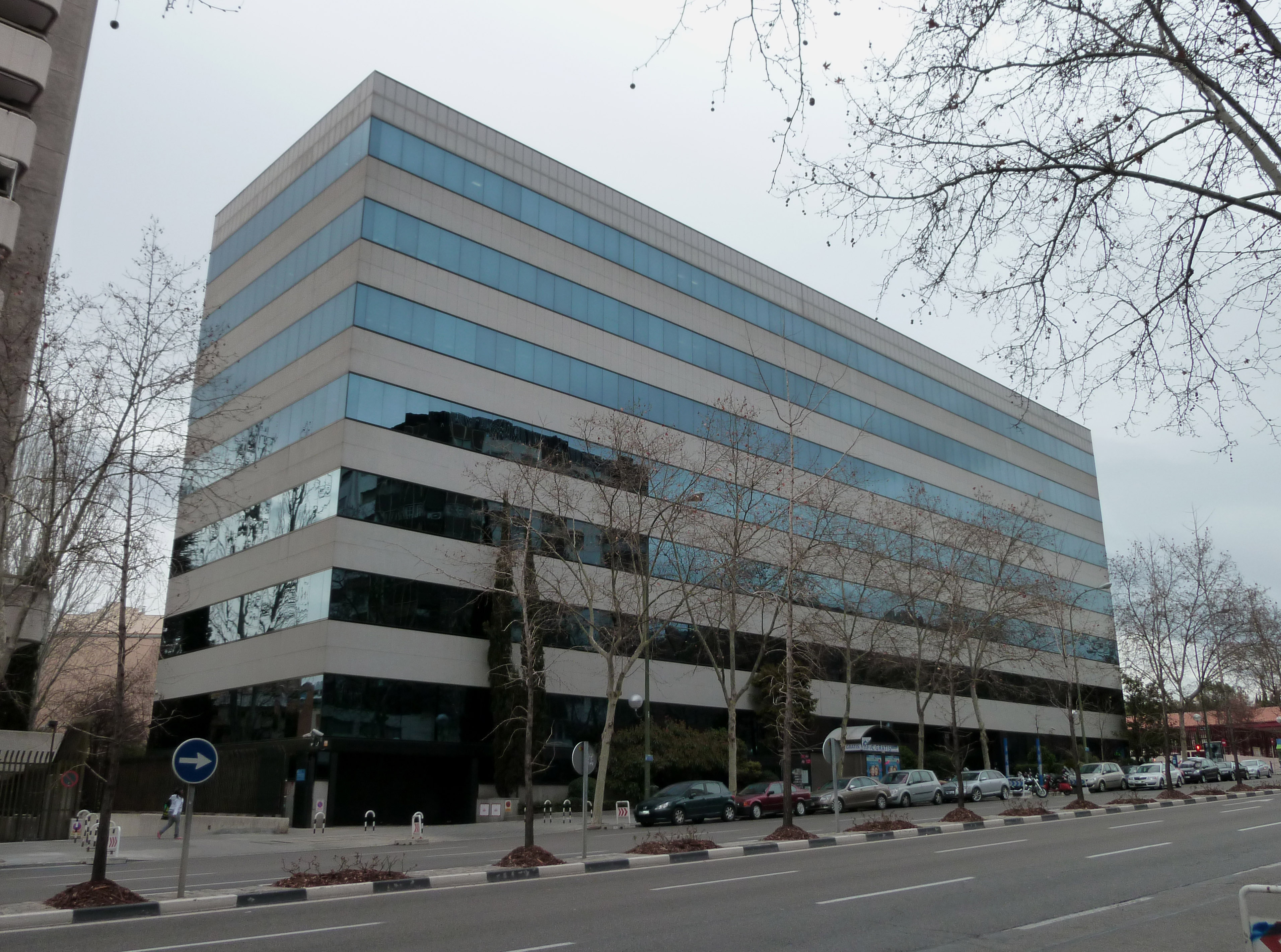 View of Ferrovial's headquarters, at 135 Calle del Príncipe de Vergara (street) in Chamartín district in Madrid (Spain). Building was inaugurated in 1989.